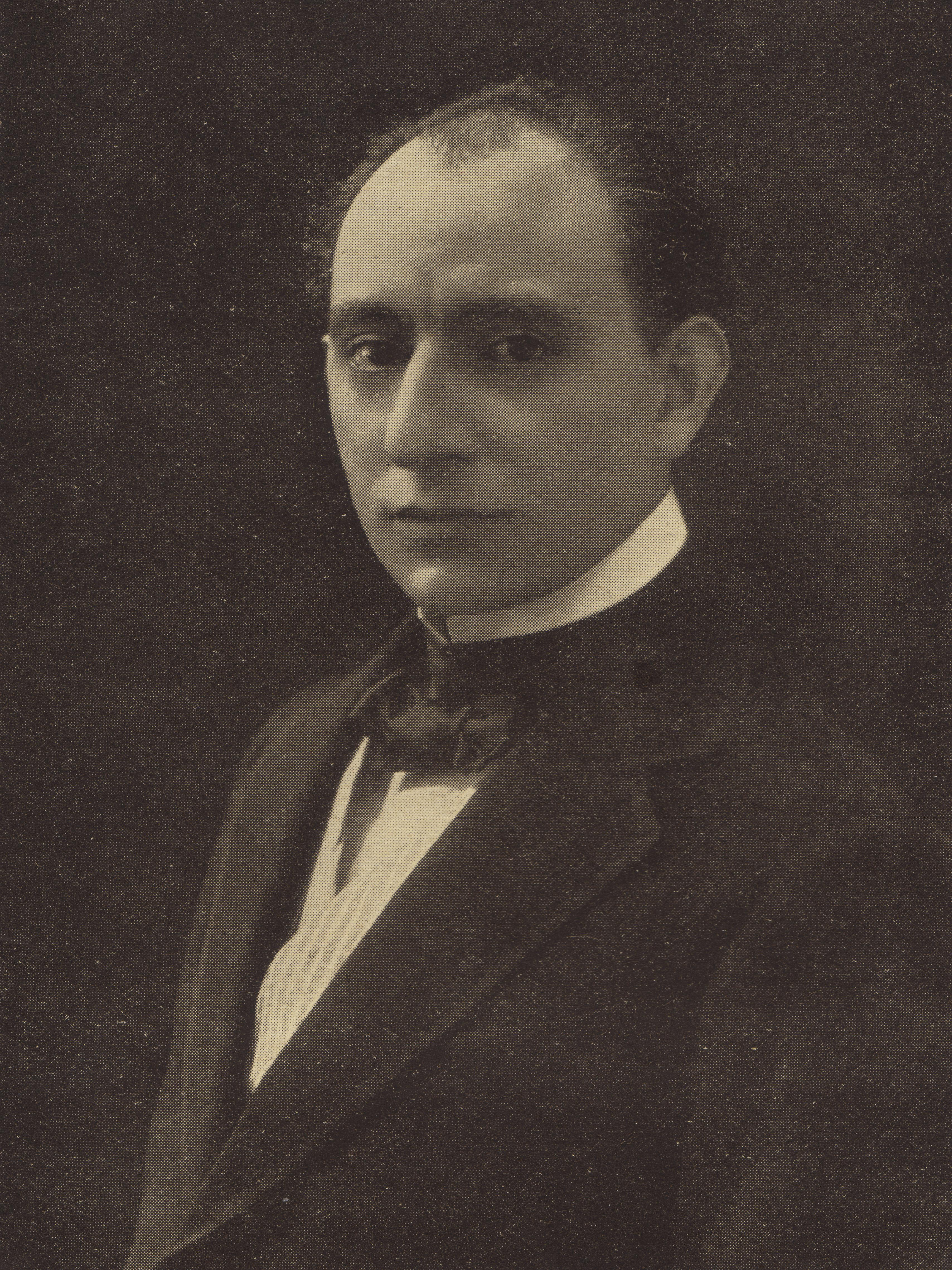 Scanned from Modern Musicians by J. Cuthbert Hadden (First published by T.N.Foulis in 1913) - September 1918 Foulis reprint. Book is in the Public Domain in the US and UK. Scanned as 1200 dpi bitmap (photo) then converted to jpeg.